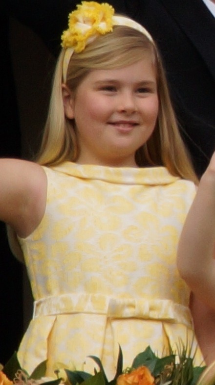 King Willem-Alexander, Queen Maxima and Princesses Catharina-Amalia, Alexia and Ariane during the balcony scene after the abdication of Beatrix.